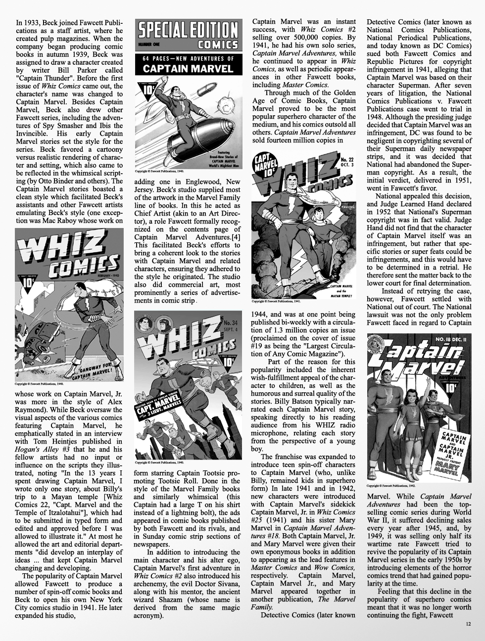 Photoshop collage showing the page layout of Steranko's History of Comics. Printed in an oversized format, most pages contained four text columns wrapped around 4-6 illustrations; comic book covers reproduced in black and white. Please note that this is not an actual scan of the book, all of the artwork is in the public domain and the filler text comes from Wikipedia articles on Captain Marvel and Charles Clarence Beck.